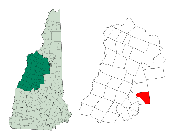 Map of a municipality in Belknap County, New Hampshire